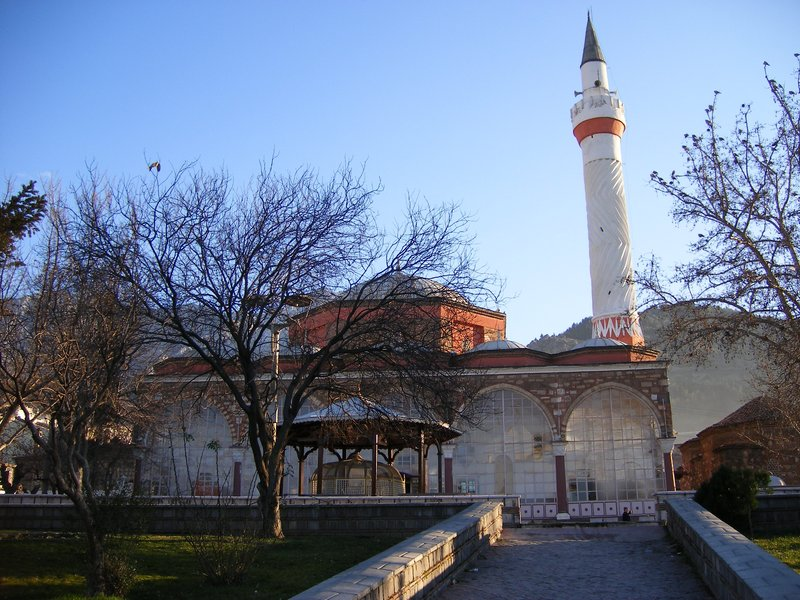 Interior view of Hatuniye Mosque